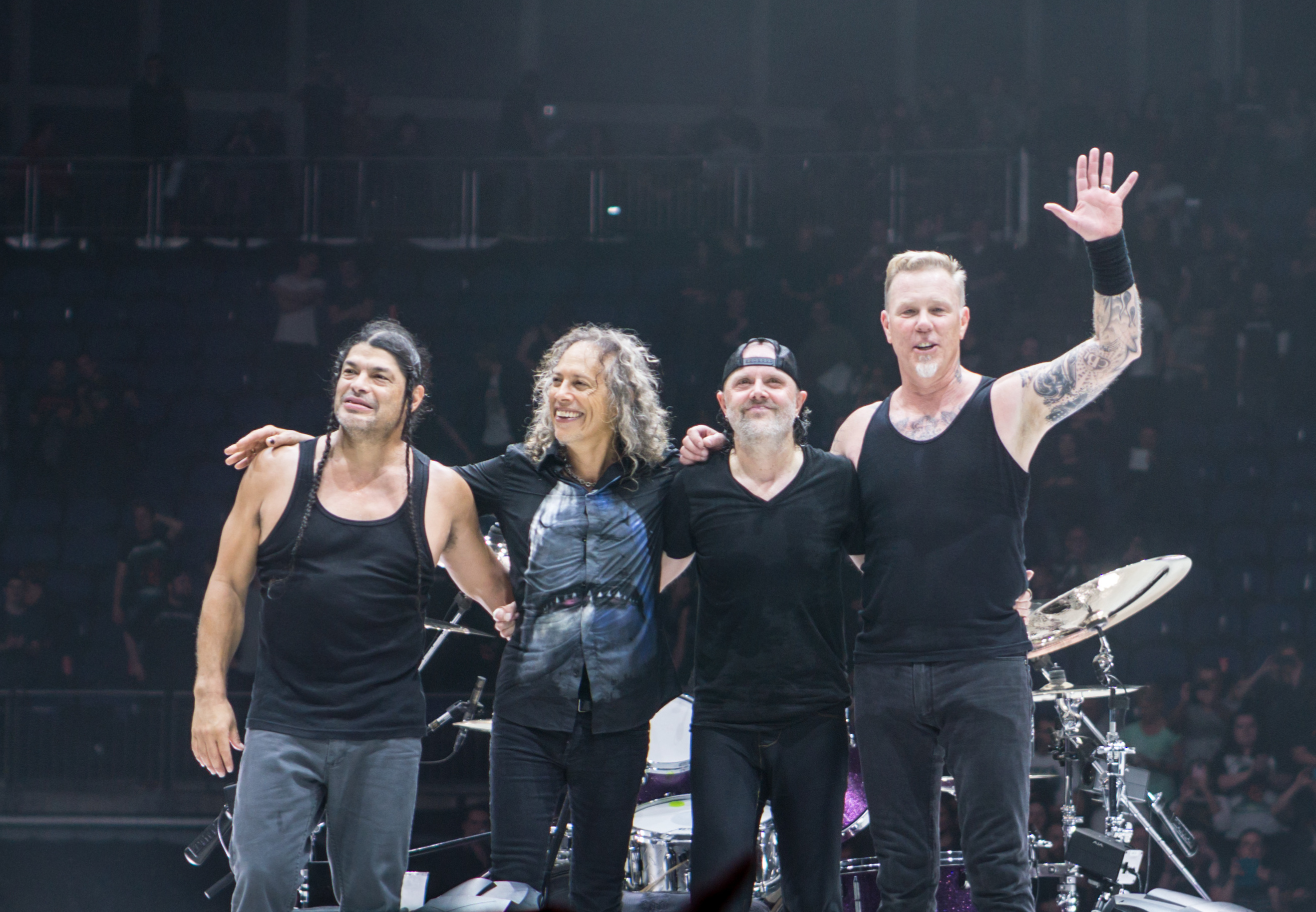 Metallica onstage